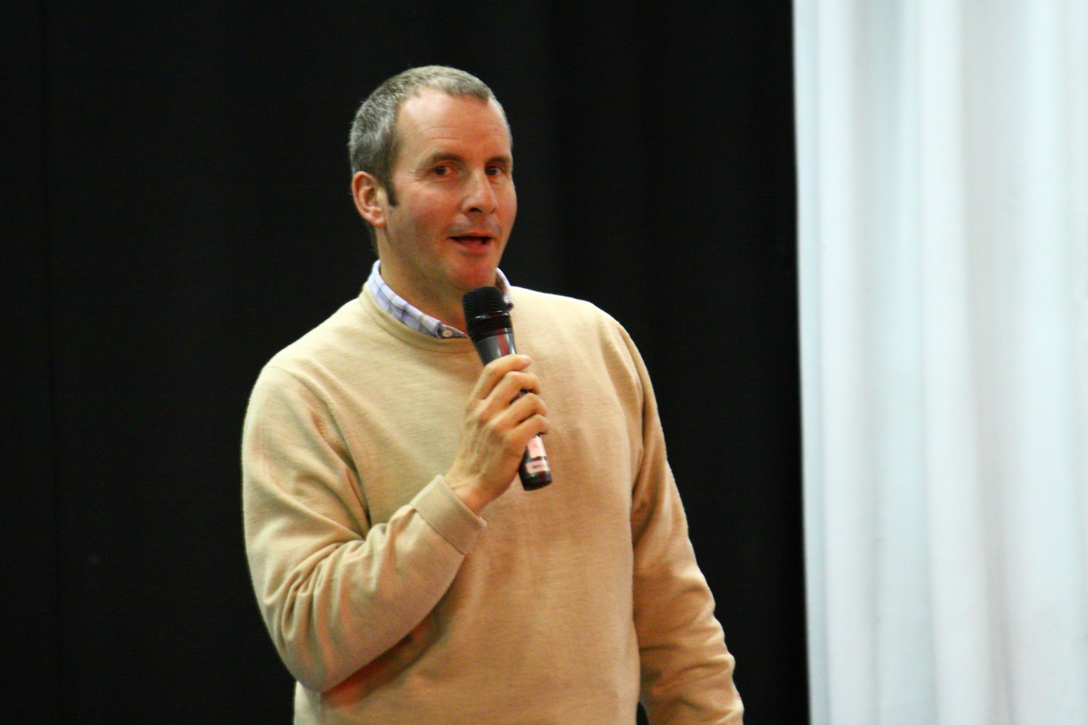 Chris Barrie aka Arnold Judas Rimmer from Red Dwarf (also Brittas Empire and Spitting Image) at Dimension Jump XV, Birmingham UK